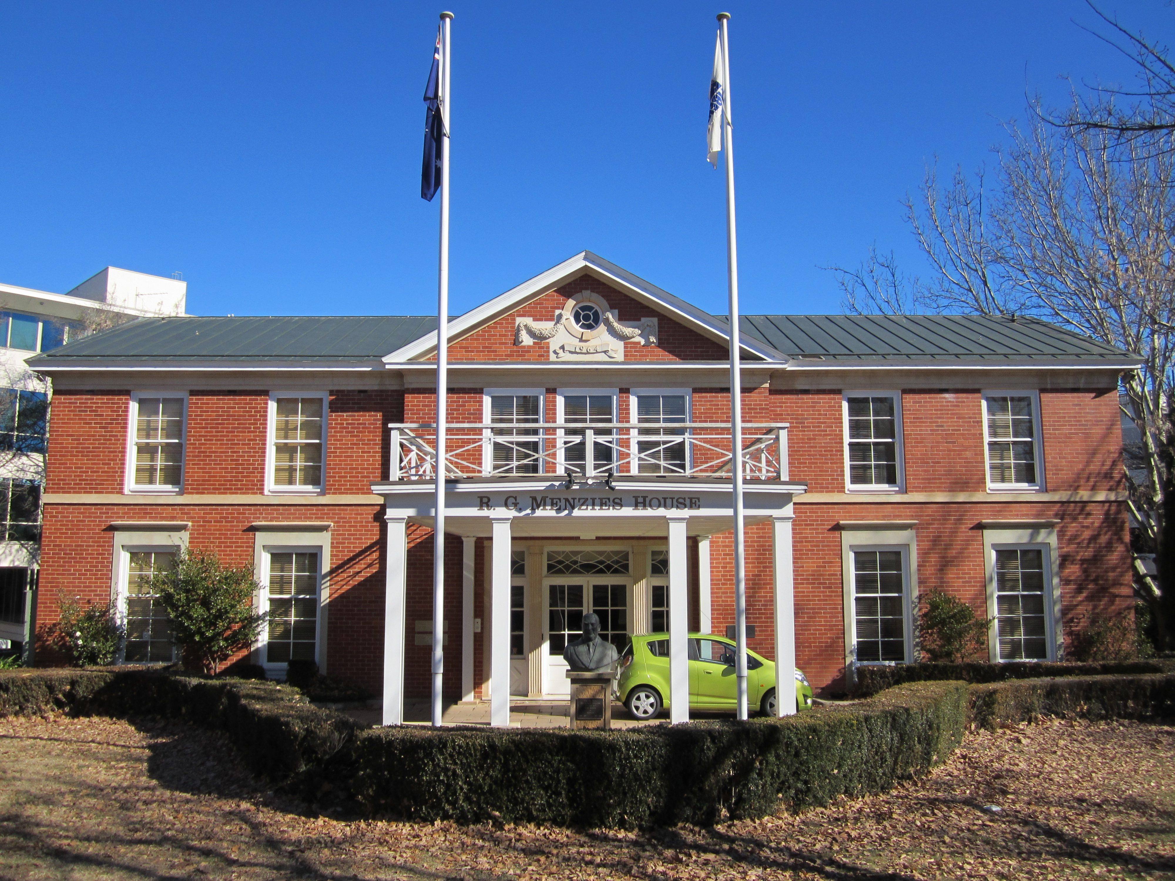 RG Menzies House in June 2012